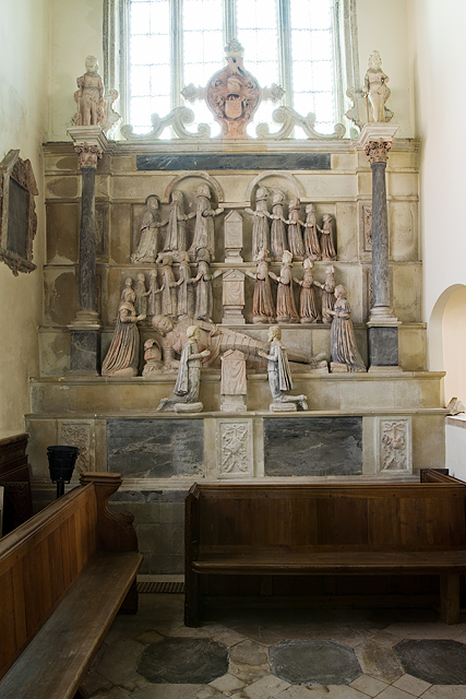 Monument to Sir Thomas Hele (d.1670) of Flete in the parish of Holbeton, Devon. Flete Chapel of Holbeton Church